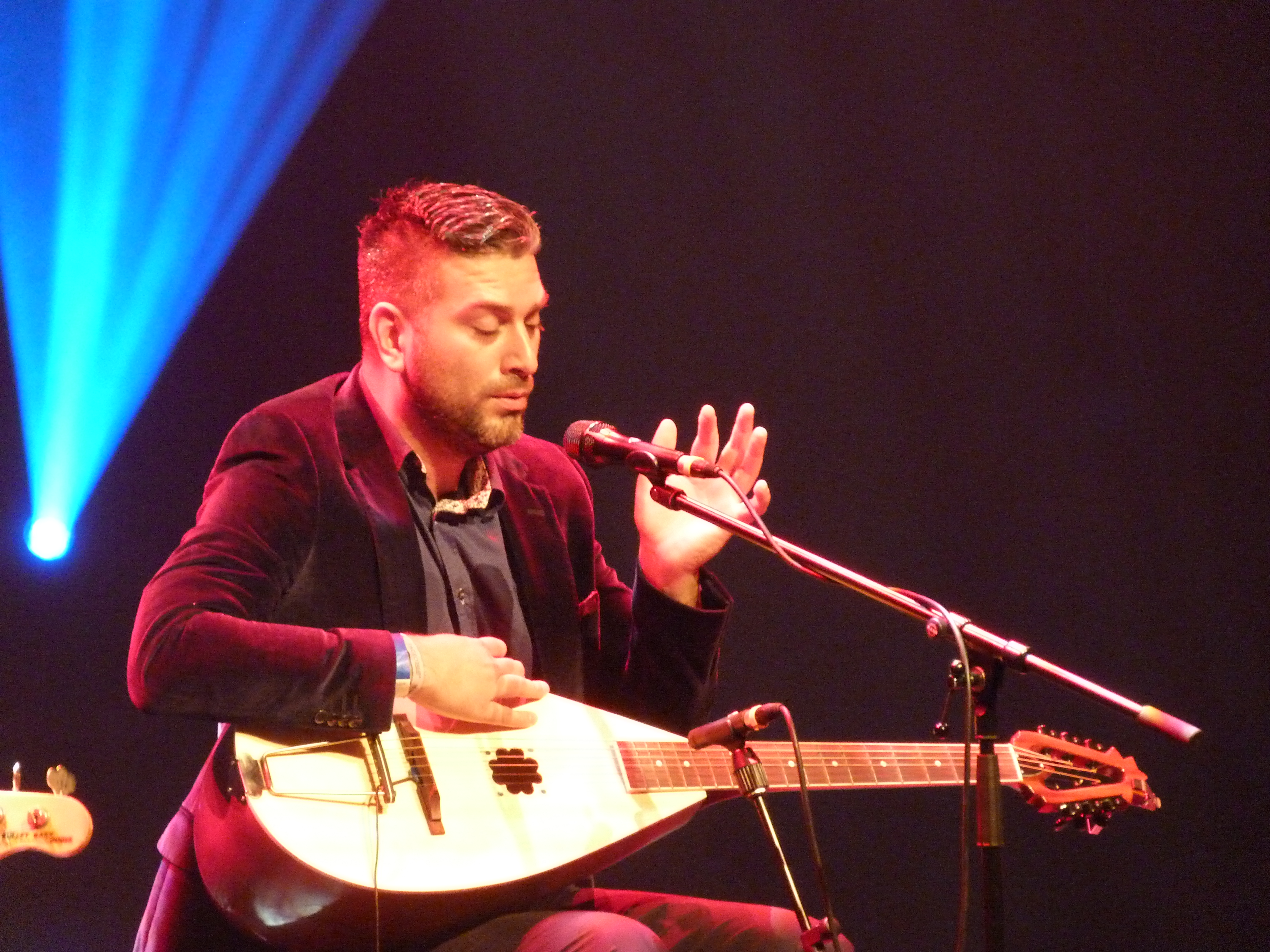 Live on the 24th of October, 2015. WOMEX 15, Budapest, Hungary.